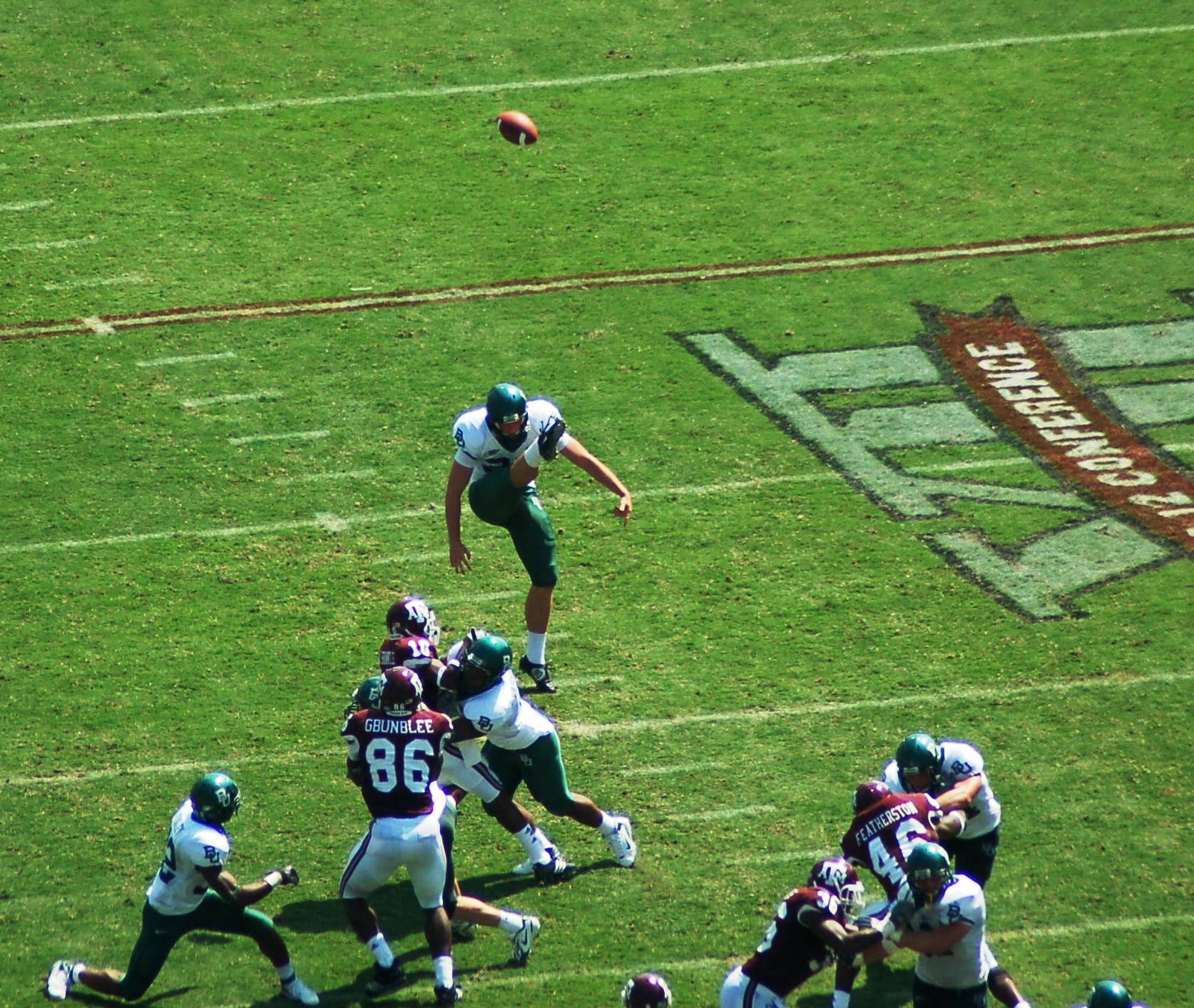 The Baylor Bears punt against Texas A&M in a 2007 regular season game.